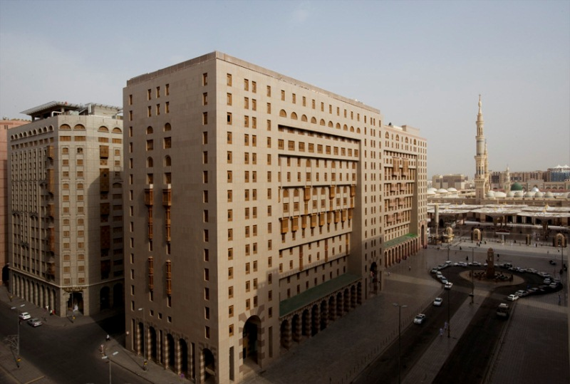 Shaza Al Madina is the first hotel in Al Madinah Al Munawwarah with the true spirit of Eastern Excellence. A member of the Global Hotel Alliance.